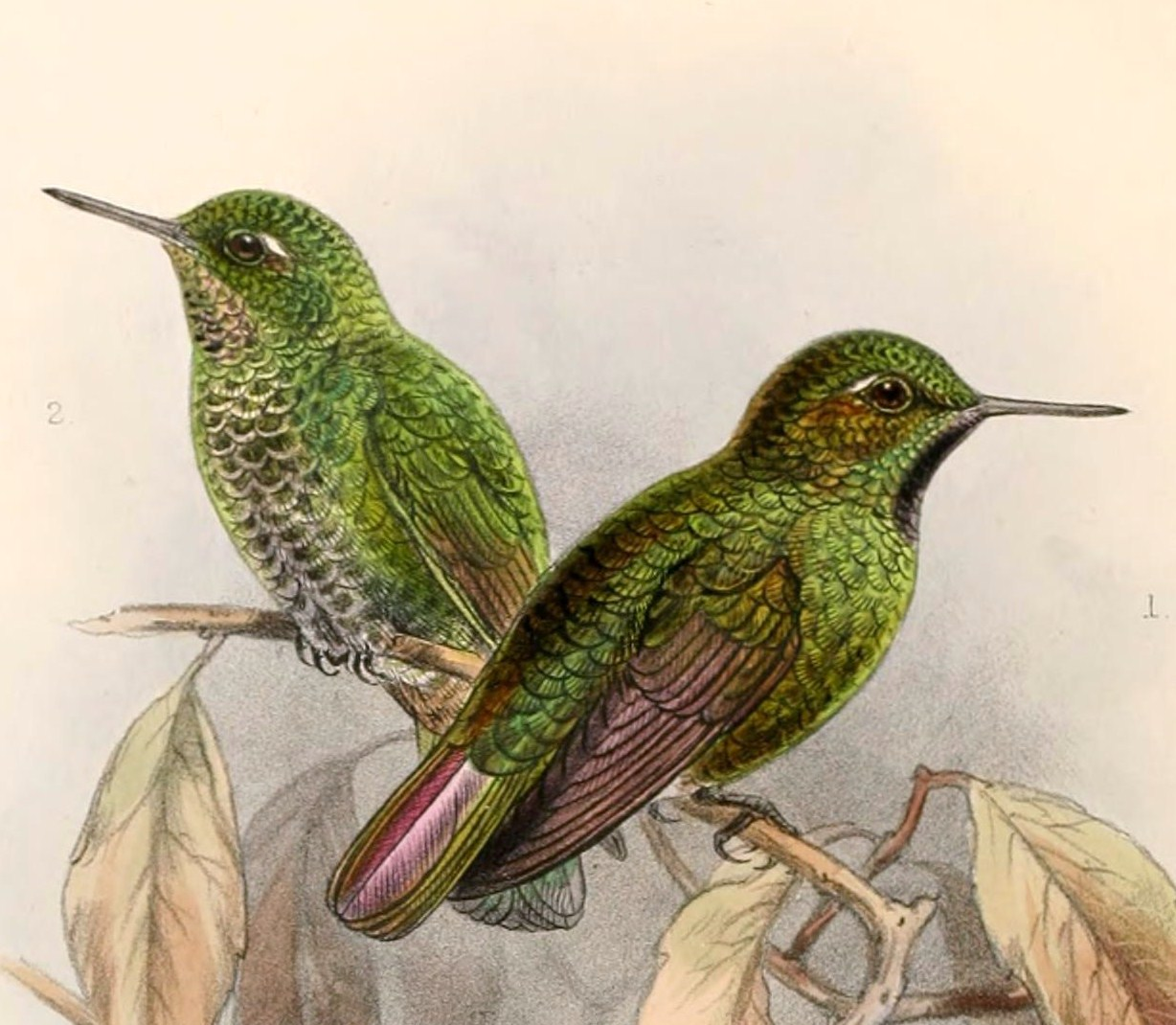 « Metallura atrigularis » = Metallura williami atrigularis (Subspecies of Viridian Metaltail) - male and female